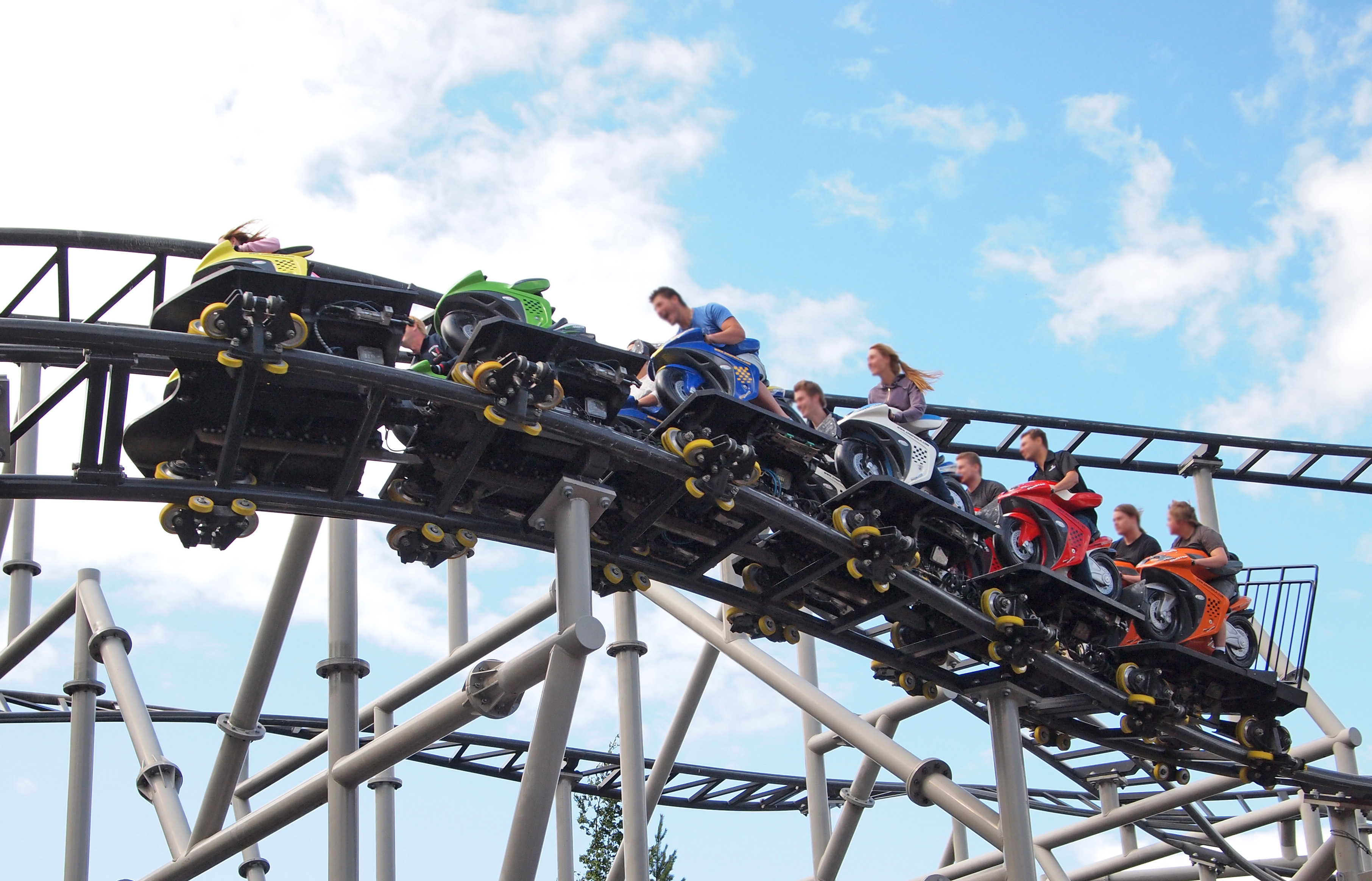 Amusement ride MotoGee in Särkänniemi amusement park, Tampere. This photograph was taken with a Olympus E-PL1.